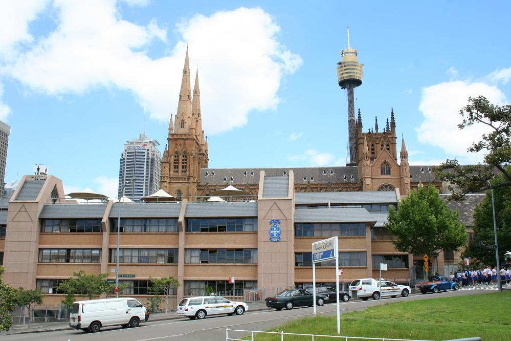 St. Mary's Cathedral College, taken from the roof of The Domain Carpark, Sydney. Also Sydney Tower and St Mary's Cathedral, Sydney can be seen behind the College.